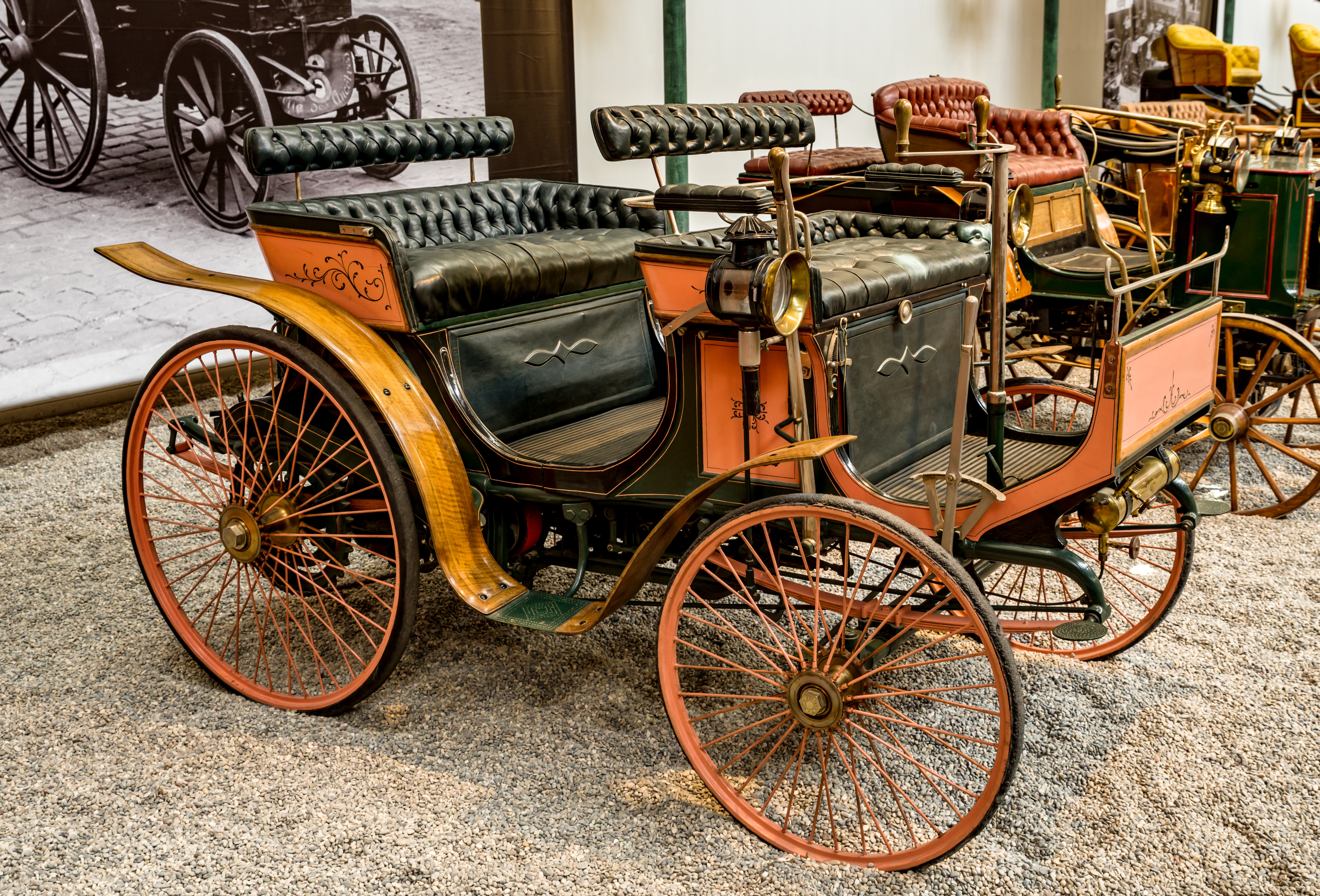 pictures from the Cité de l’Automobile – Musée National – Collection Schlump in Mulhouse, France ptictures from the 10. may 2018